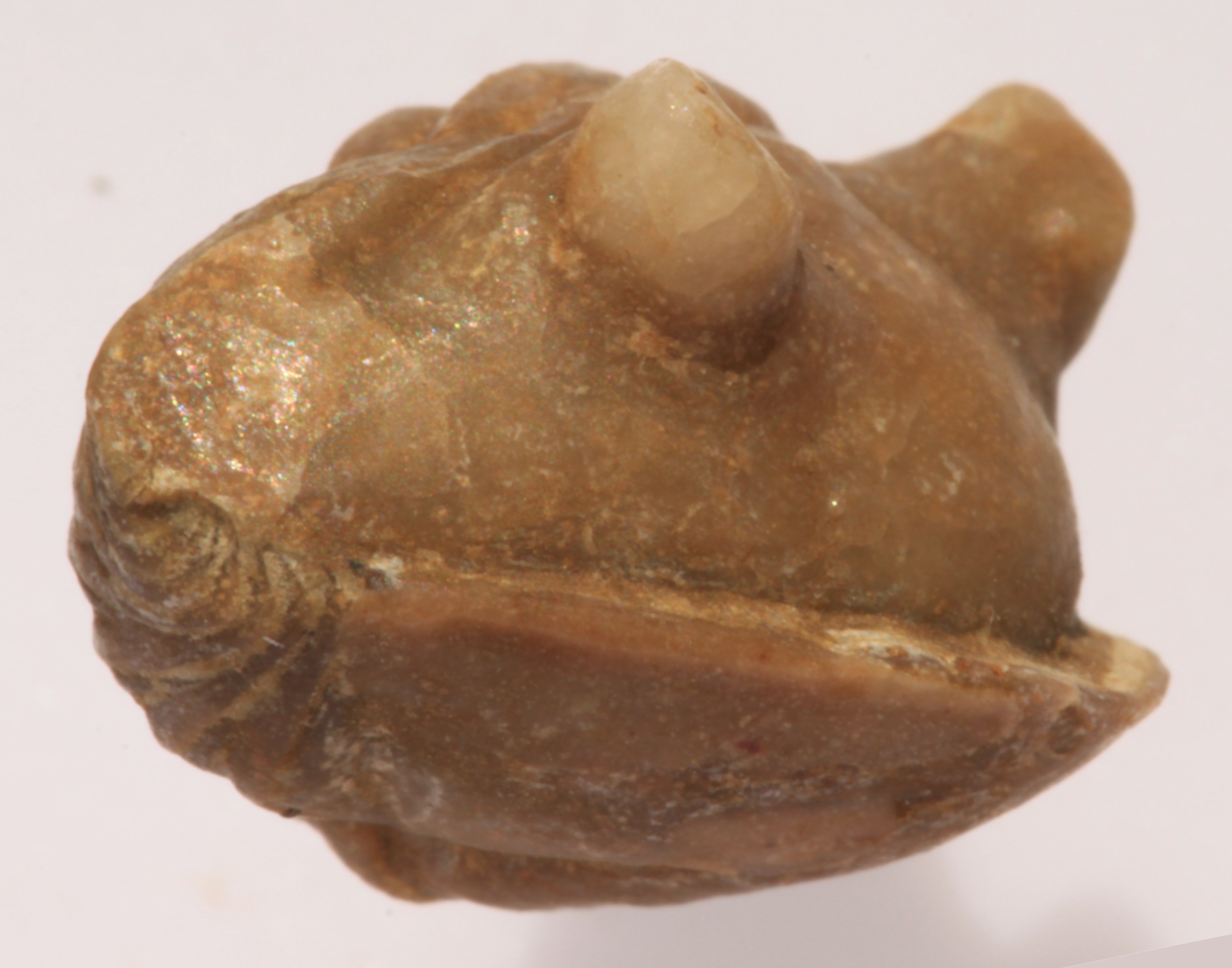 The trilobite Asaphus plautini, Order Asaphida, Family Asaphidae, defensive rolled-up posture, 27mm from the 4th thoracial segment to the rim of the pygidium, latero-frontal view of the cephalon and pygidium, found at the Vilpovitsky Quarry near Petrograd, Russian Republic, from the Middle Ordovician